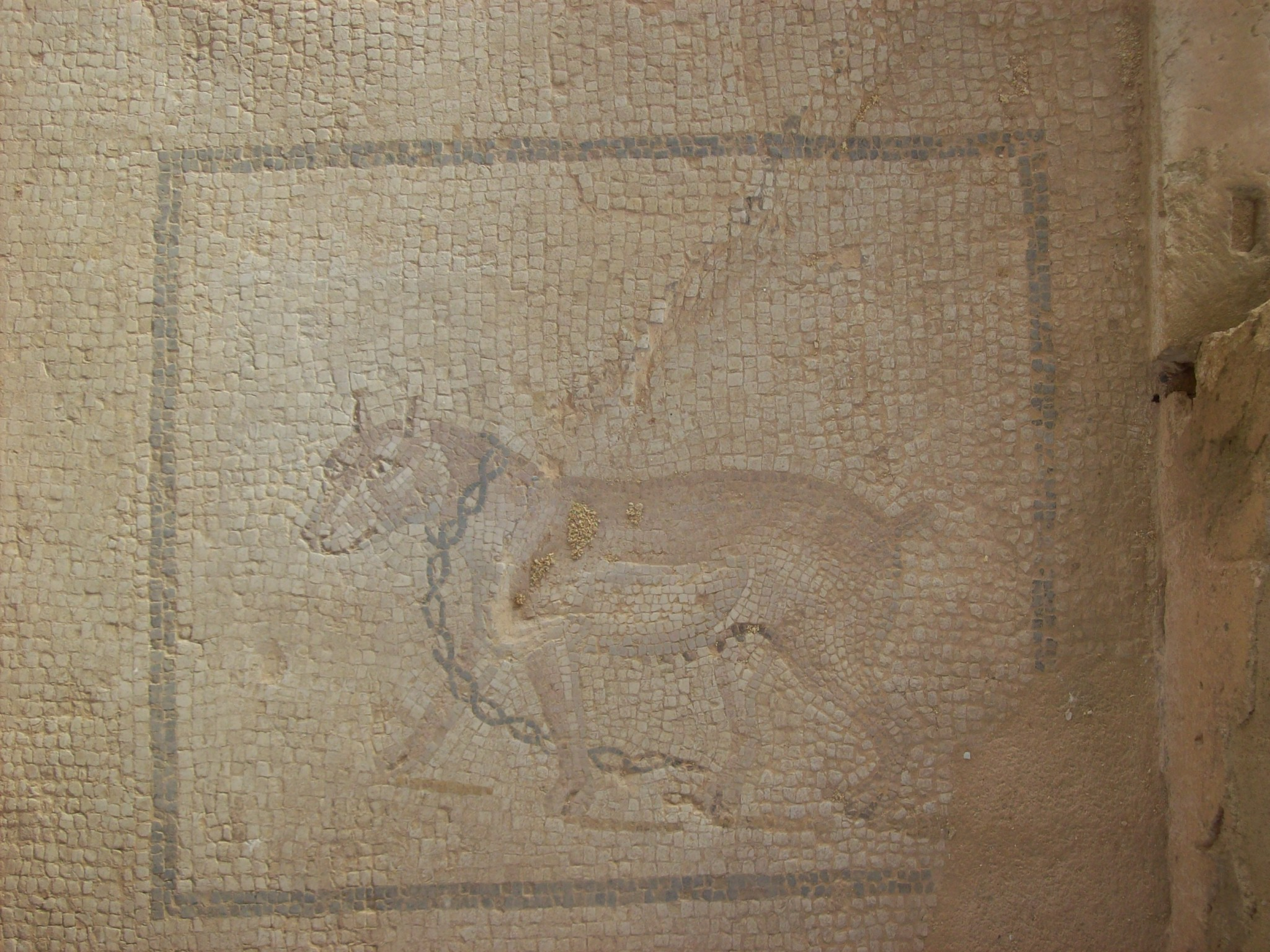 Roman mosaic warning about a dangerous dog in the Archaeological Parc of Marsala, Sicily Sicilianu: Musaicu rumanu ca avvirti di nu cani piriculusu nta lu Parcu Archiològgicu di Maissala